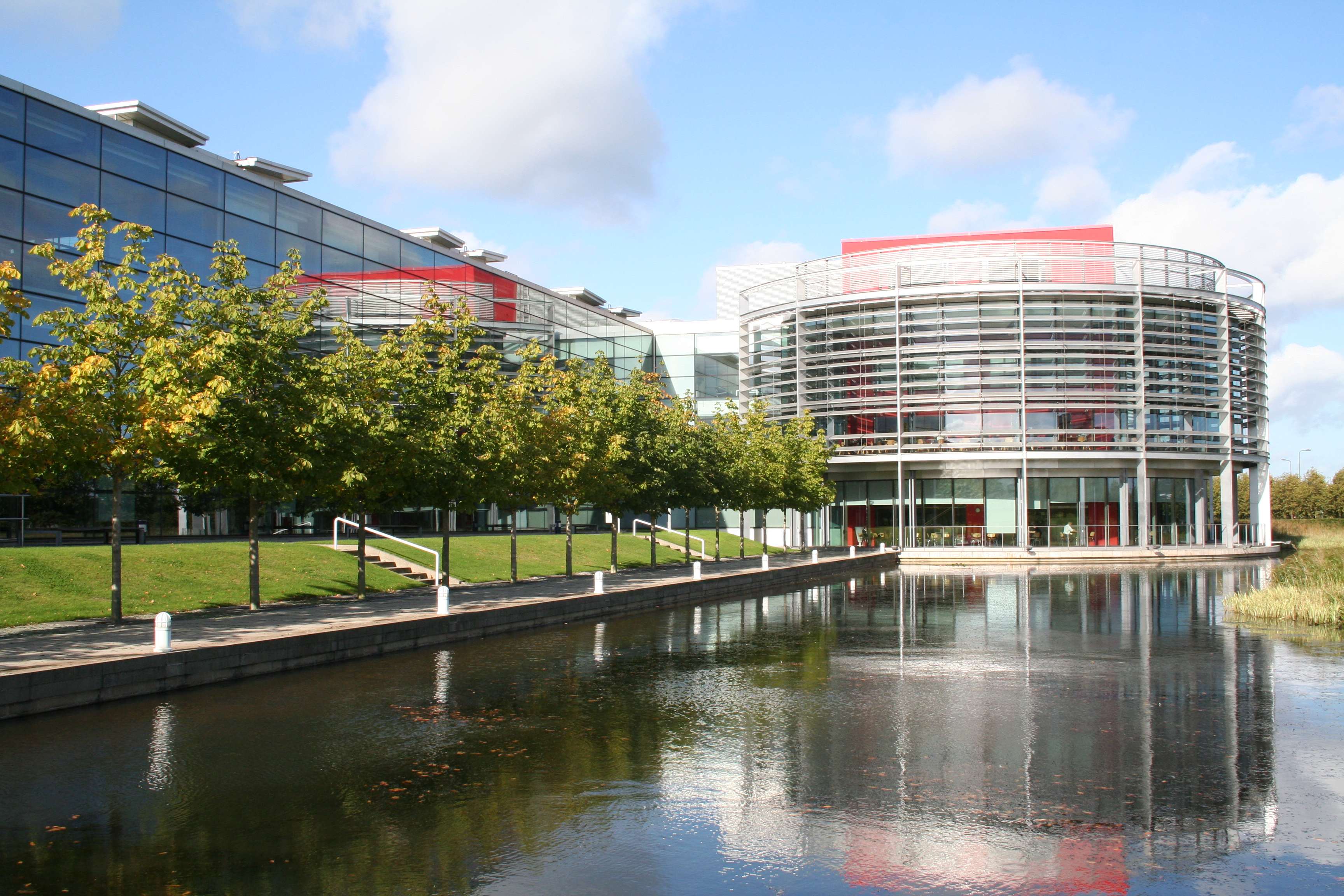 BT building at Edinburgh Park, designed by Bennetts Associates Image taken by Maccoinnich October 2006